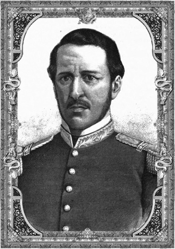 Self-portrait of Félix María Zuloaga Trillo, Lithograph (1870-1907).